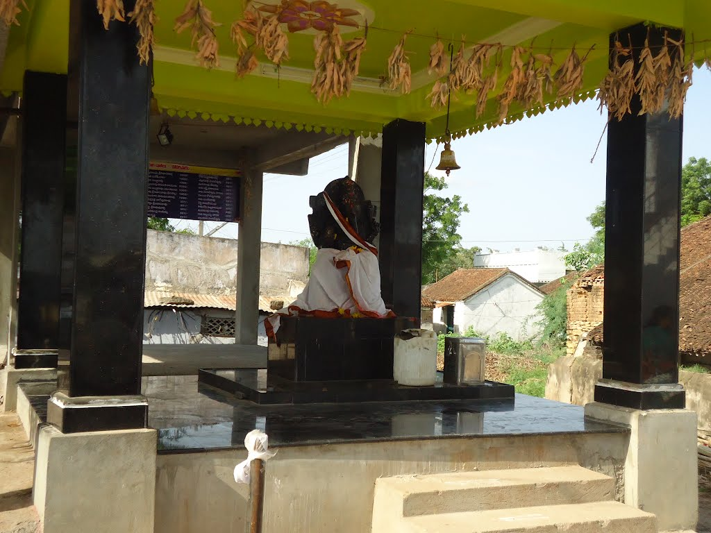 Rachavaripalem_photo2